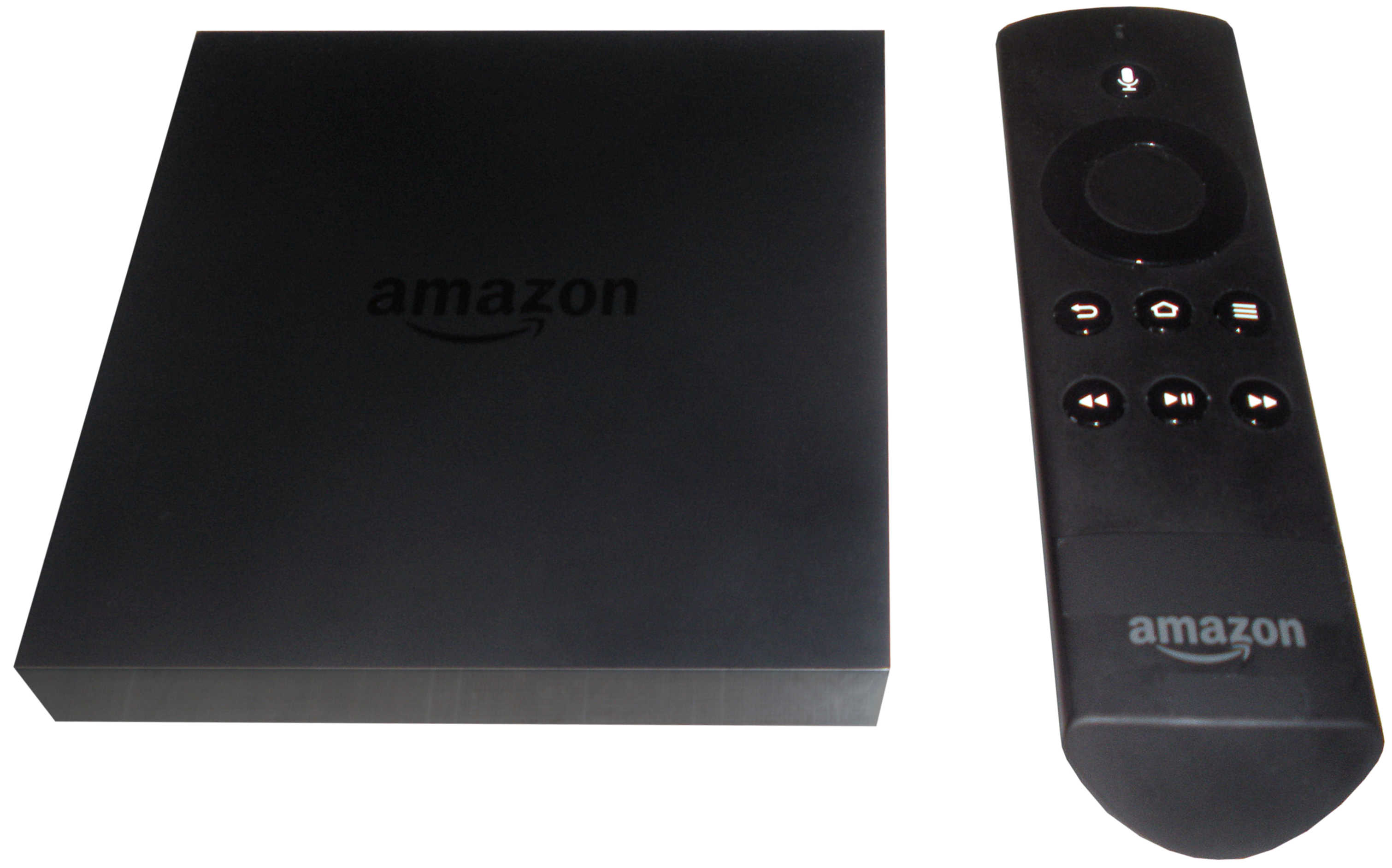 This is an Amazon Fire TV with the remote. You can also view this picture at Flickr